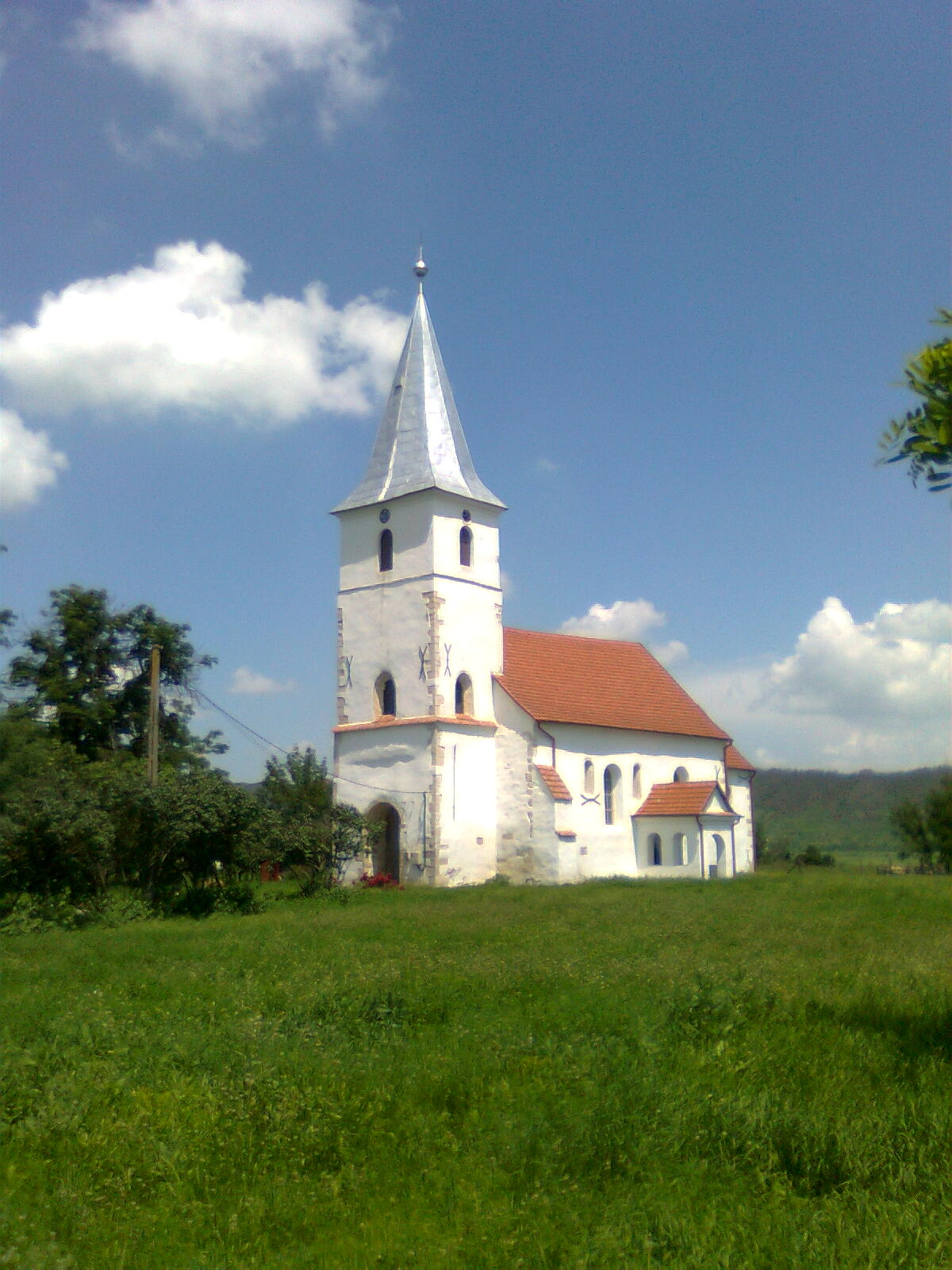 Reformed church in Aranyosgerend (Luncani, Romania) built in 1290